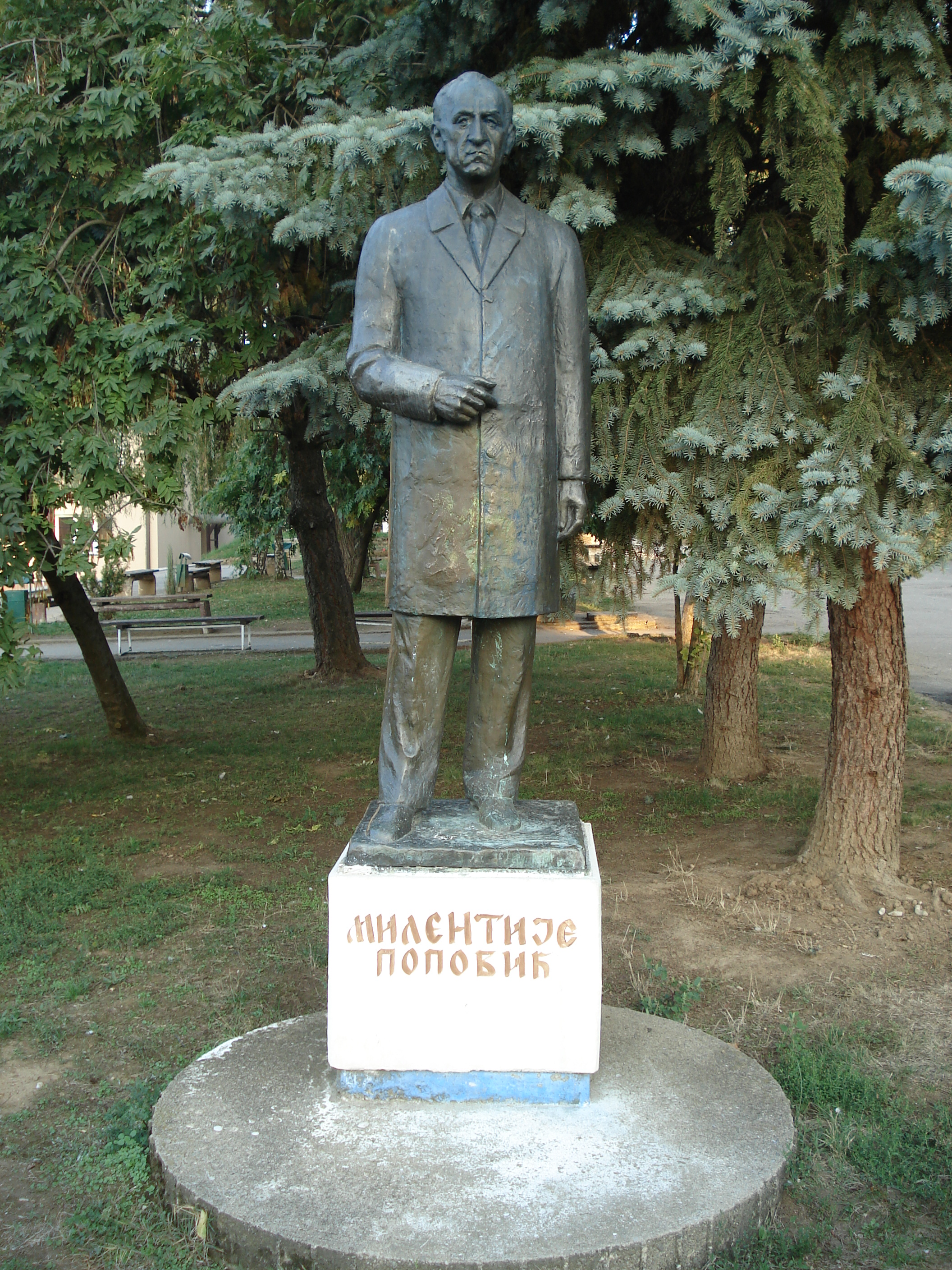 Milentije Popović, spomenik u dvorištu srednjih škola u Vlasotincu